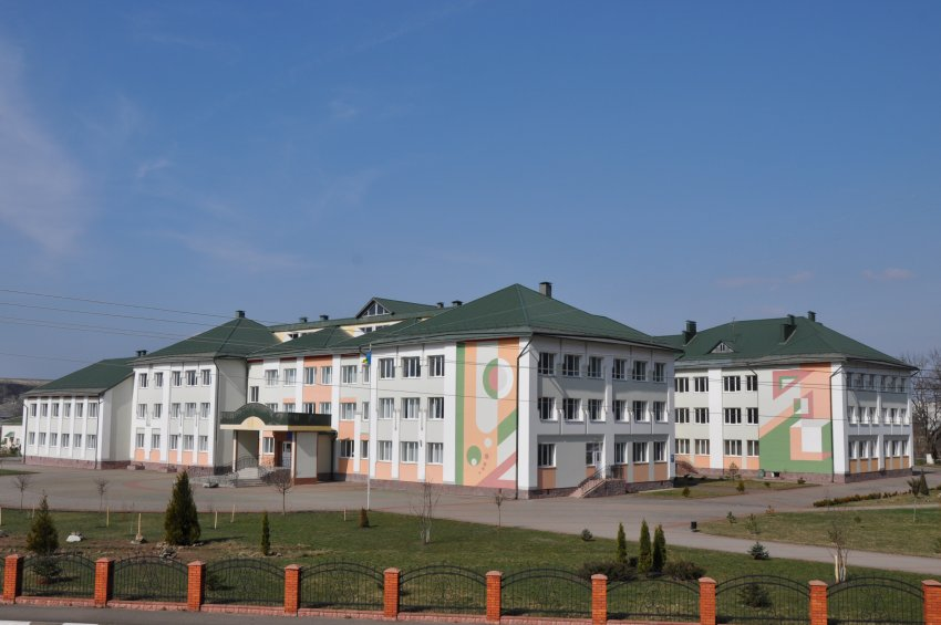 School of general education №11